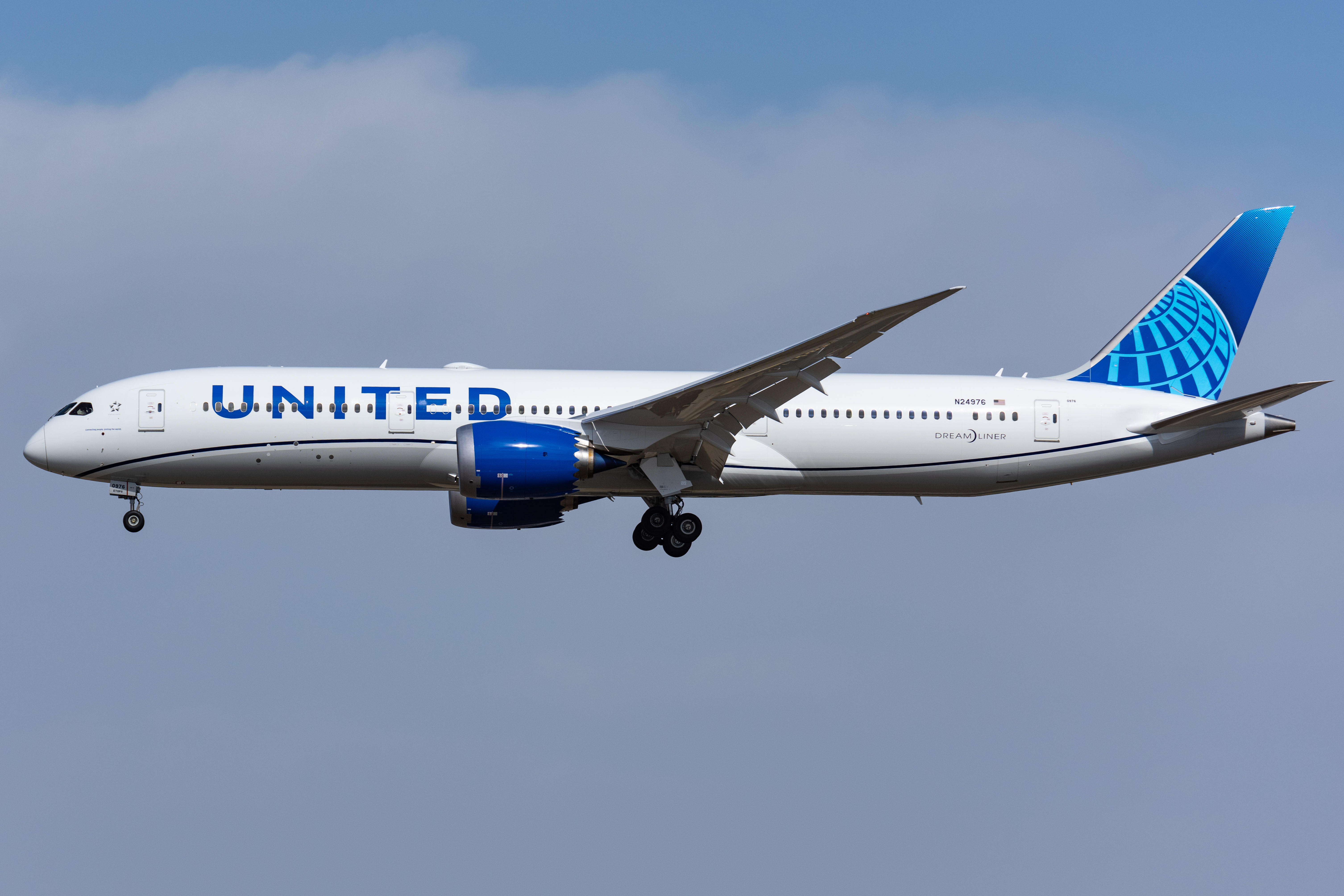 United 2836 from Tokyo-Narita... Well actually from Washington (as UA2835) via Narita (where it became UA2836). The new livery says "Connecting people. Uniting the world."